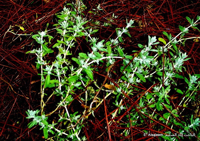 نباتات برّية سورية تؤكل